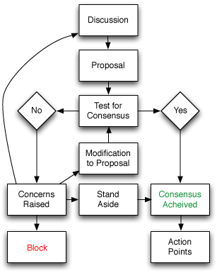 Flowchart of consensus based decision-making